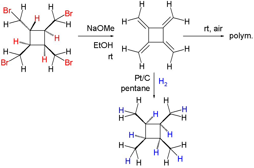 [4]radialene synthesis